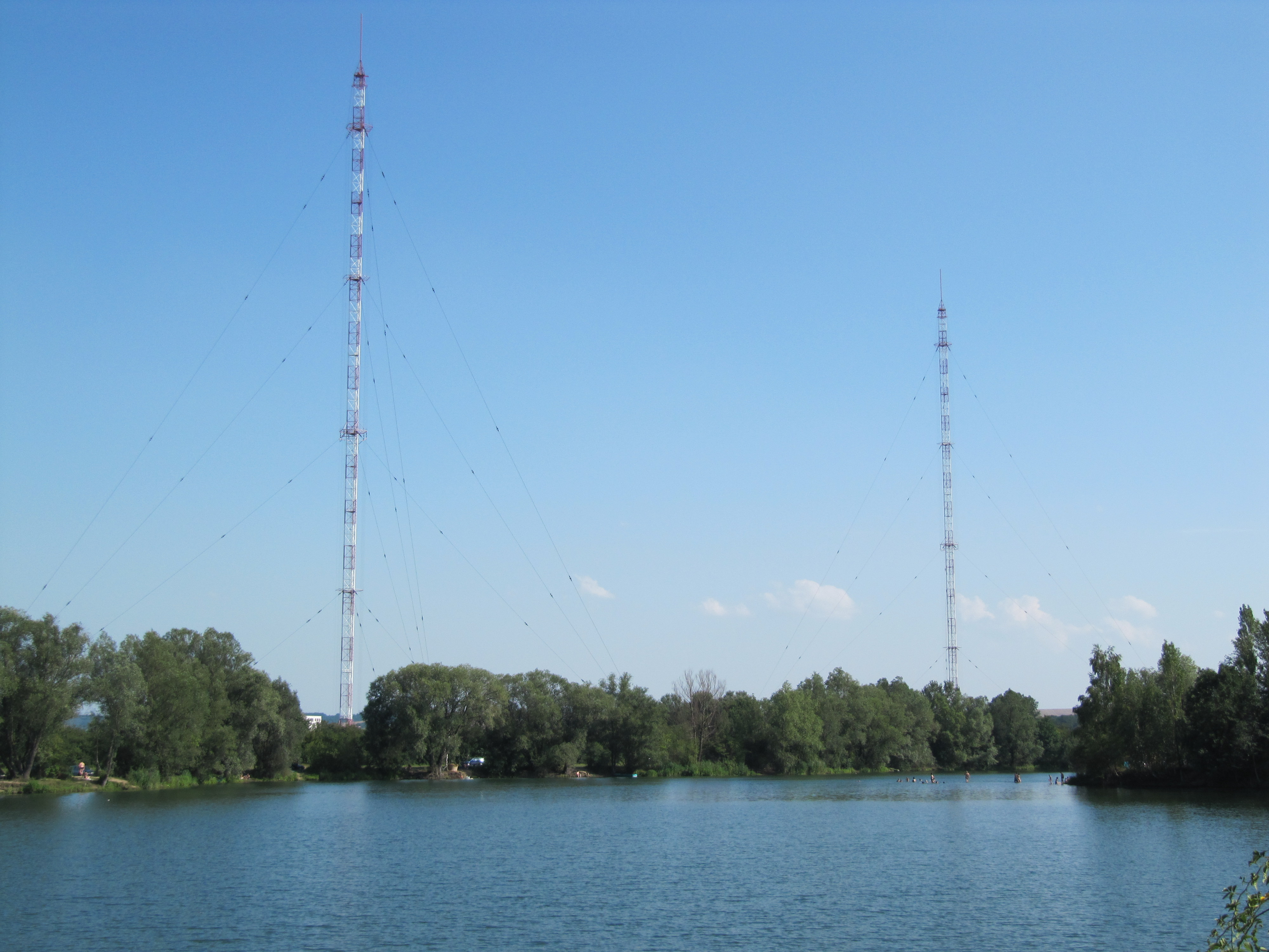 Topolná, Uherské Hradiště District, Czechia.